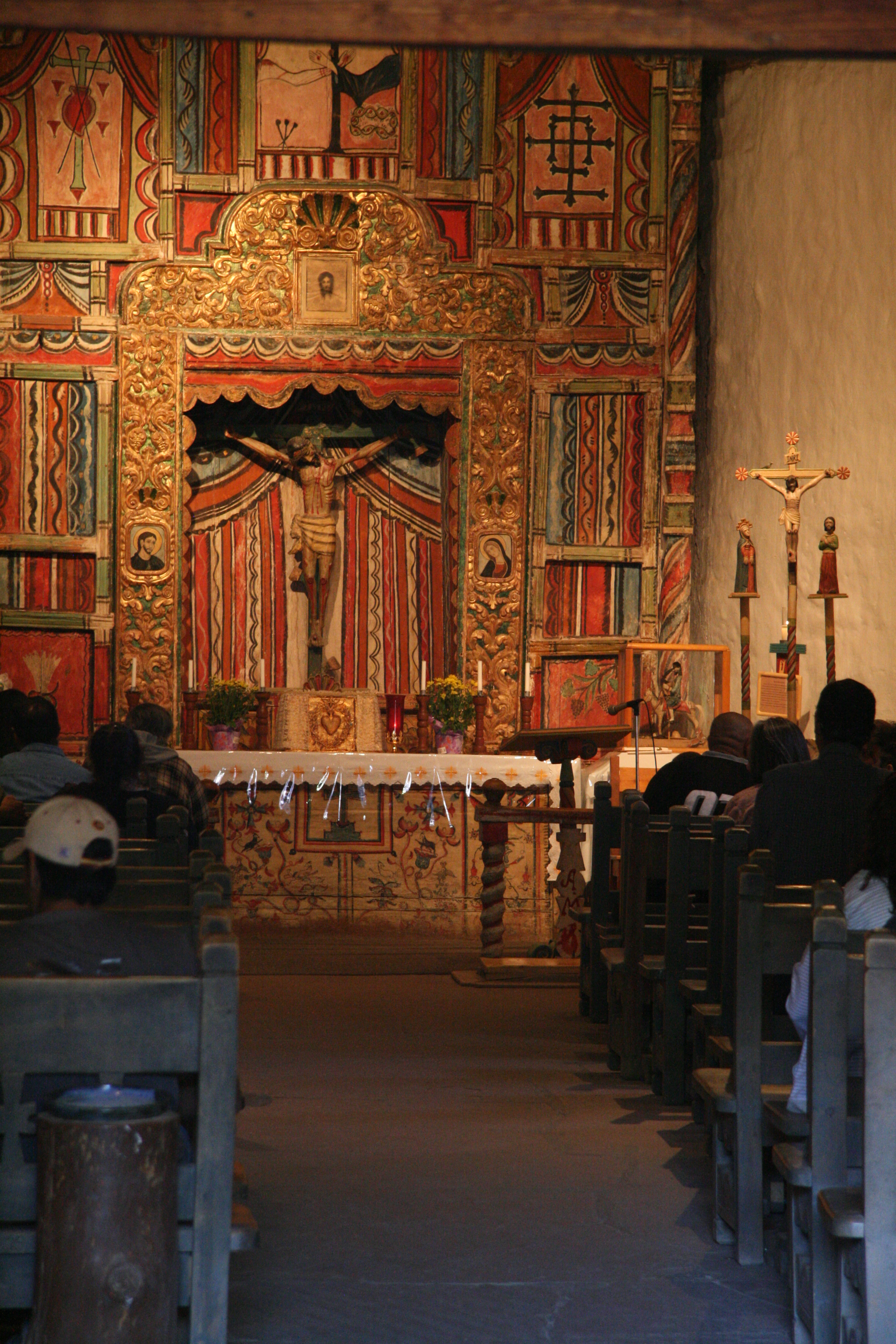 El Santuario de Chimayo